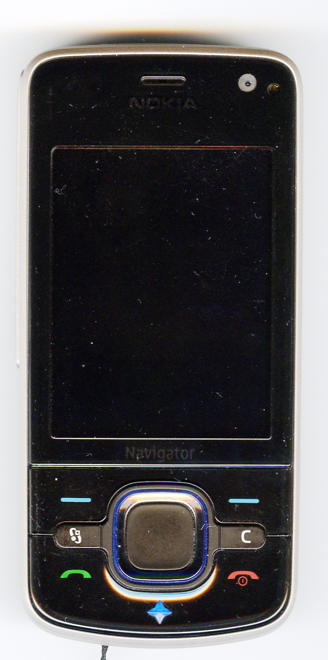 Nokia 6210 Navigator mobile phone front